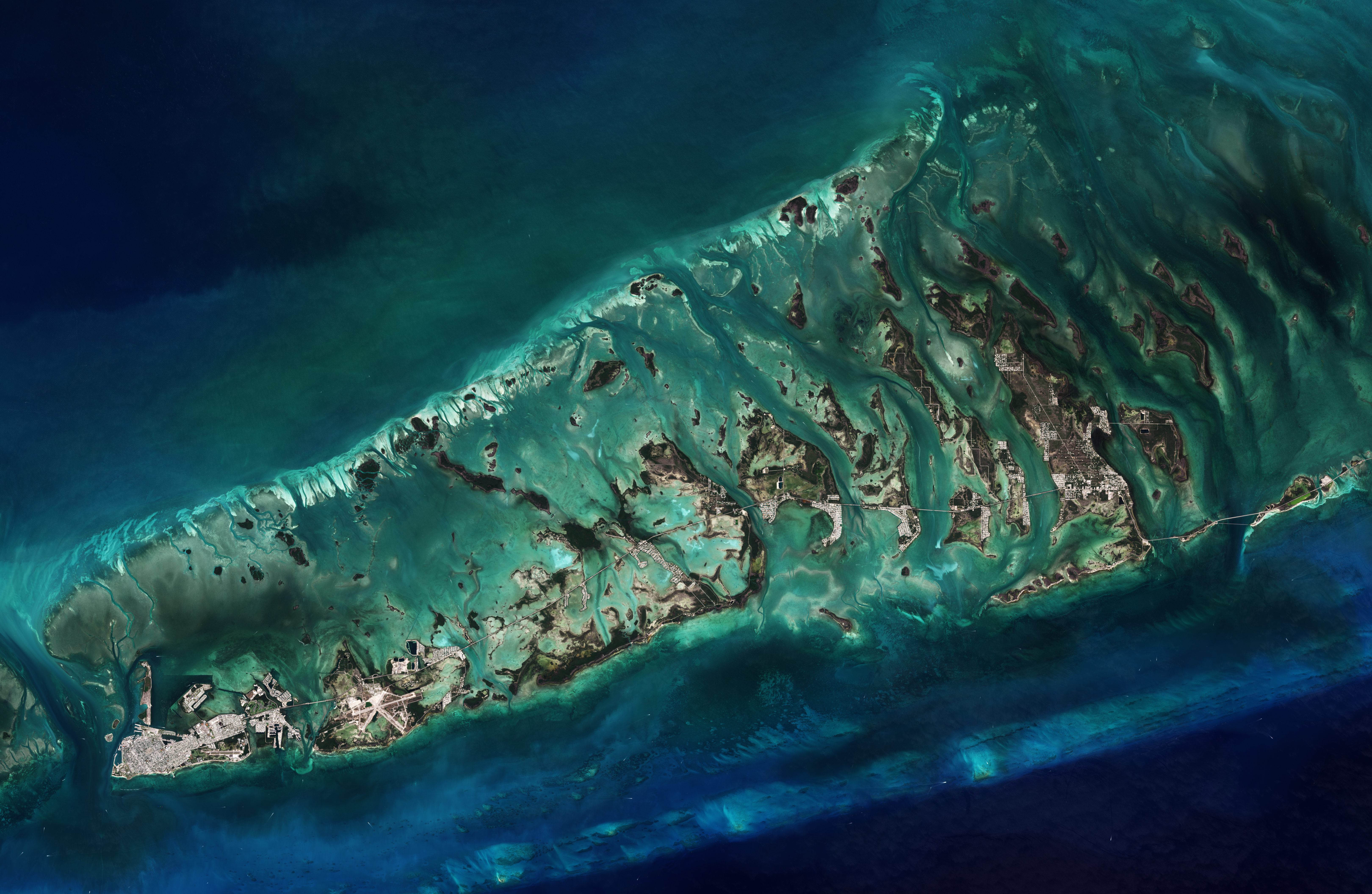 Date: 2019-02-28 Sensor: MSI on Sentinel-2A Resolution: 10m RGB Composites: True color, Band 4-3-2